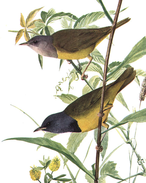 Mourning Warbler, Oporornis philadelphia, female (upper) and male (lower), offset reproduction of watercolor